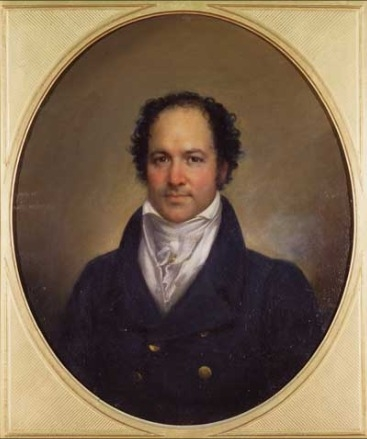 Watercolor on paperboard portrait of Benjamin Watkins Leigh. Inscribed on the back: "B. W. Leigh 1835 Painted by Mr. Longacre of Philadelphia." Virginia Museum of History and Culture